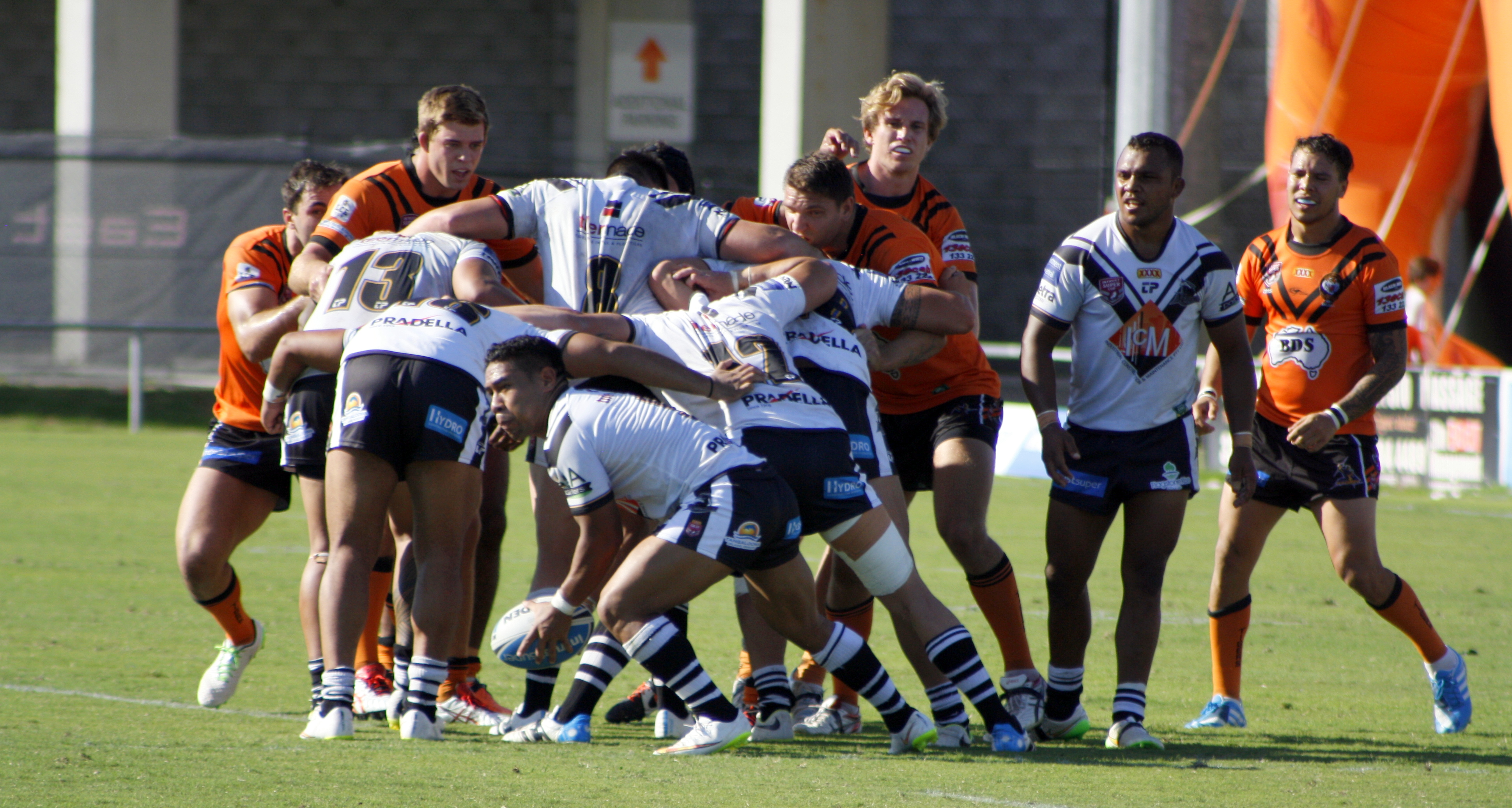 The scrum. Easts versus Souths Logan at Langlands Park on Sunday April 5, 2015.